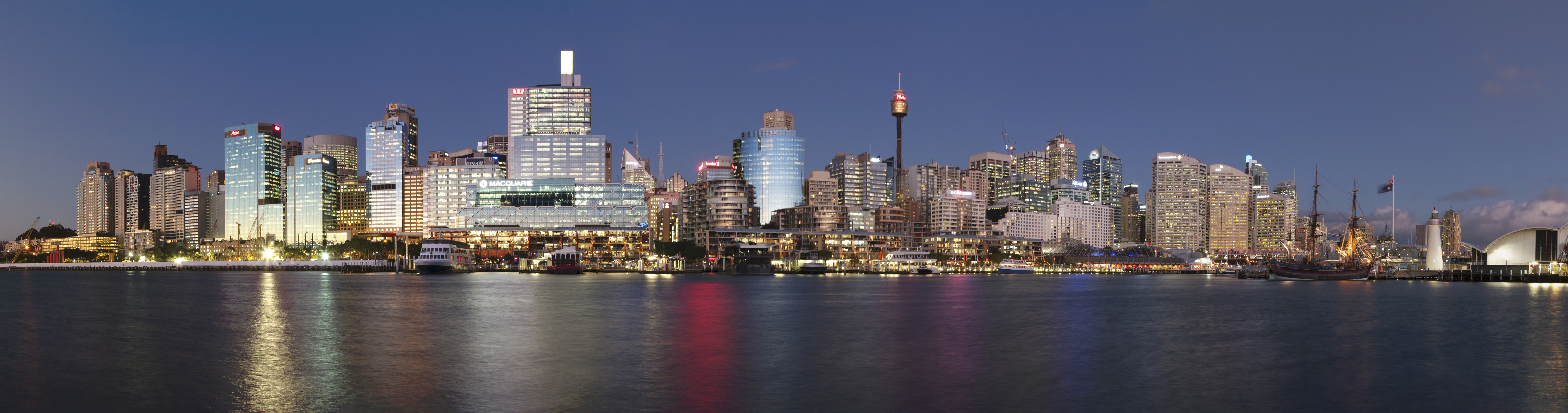 Panorama of Darling Harbour and the replica HMB Endeavour, Sydney, NSW at Dusk.